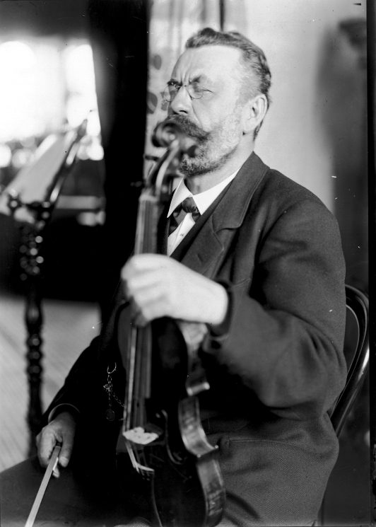 Emanuel Wirth (1842–1923)